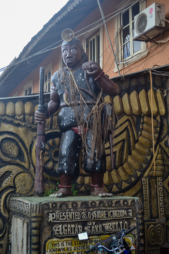 The Old Palace Of The Deji Of Akure